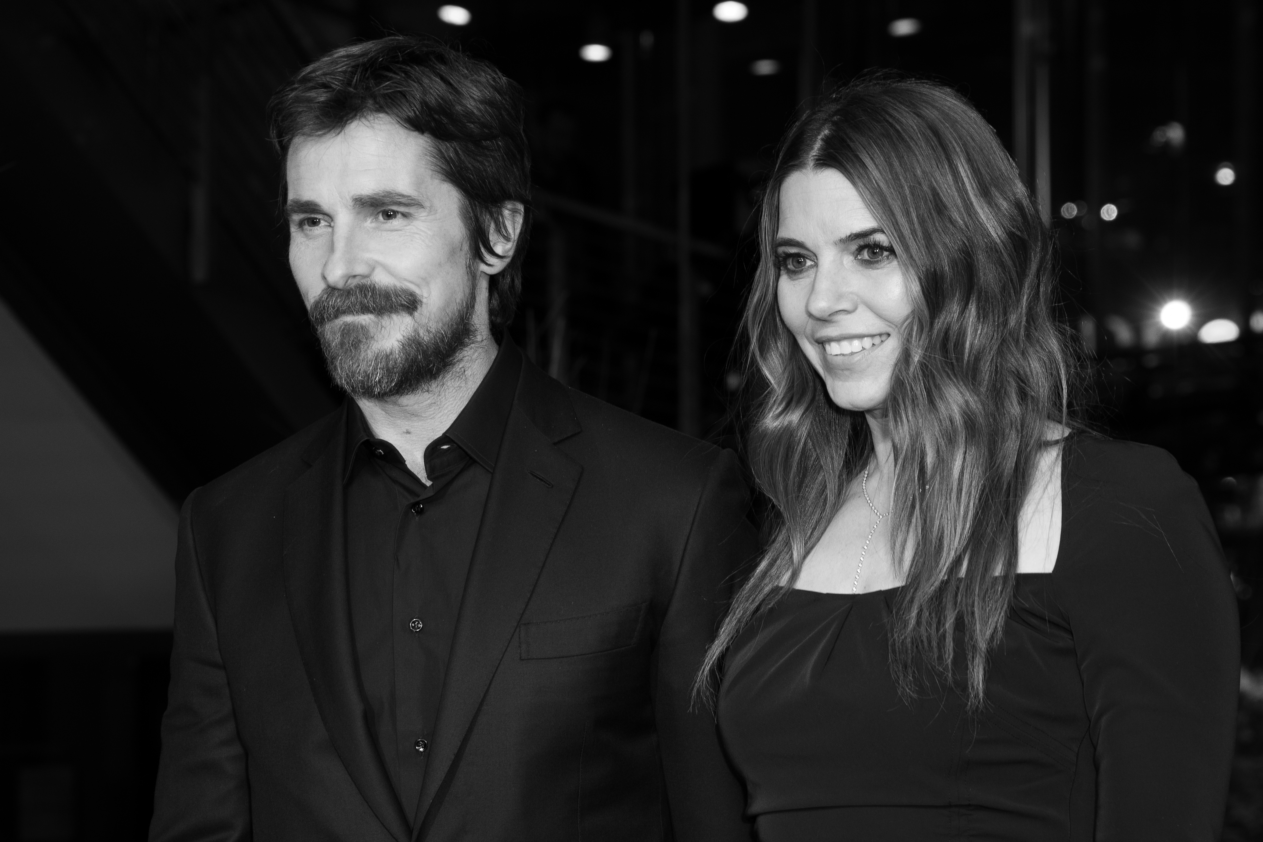 Christian Bale and his wife Sibi Blažić presenting the movie "Vice" at the Berlinale 2019